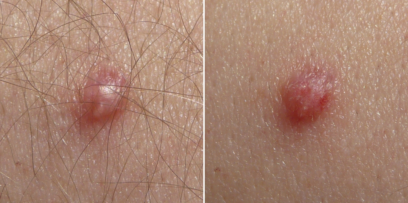 Papilloma. Human papillomavirus (HPV)